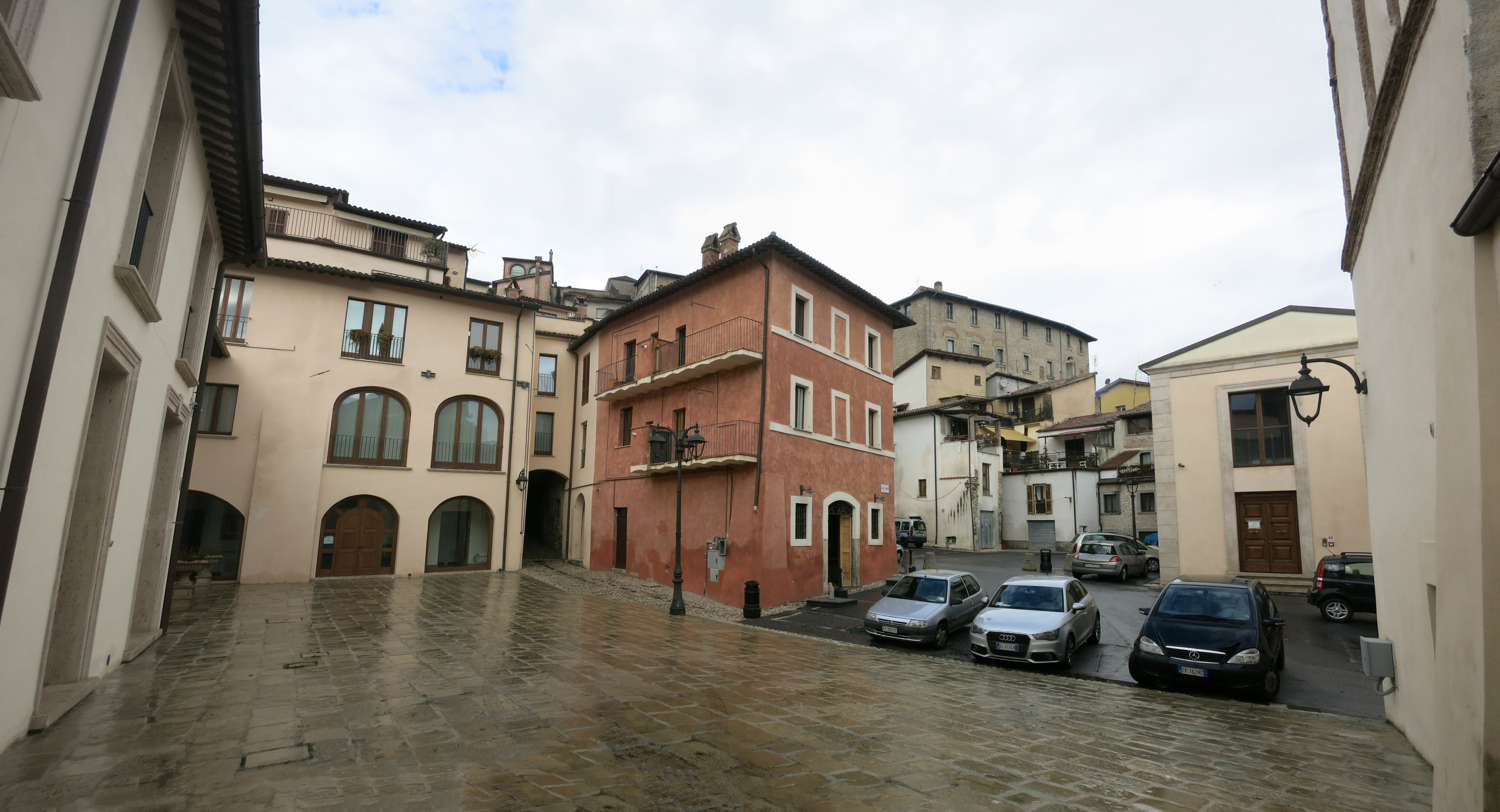 Varrone Foundation's Culture workshop - San Giorgio Square, Rieti (Lazio, Italy)